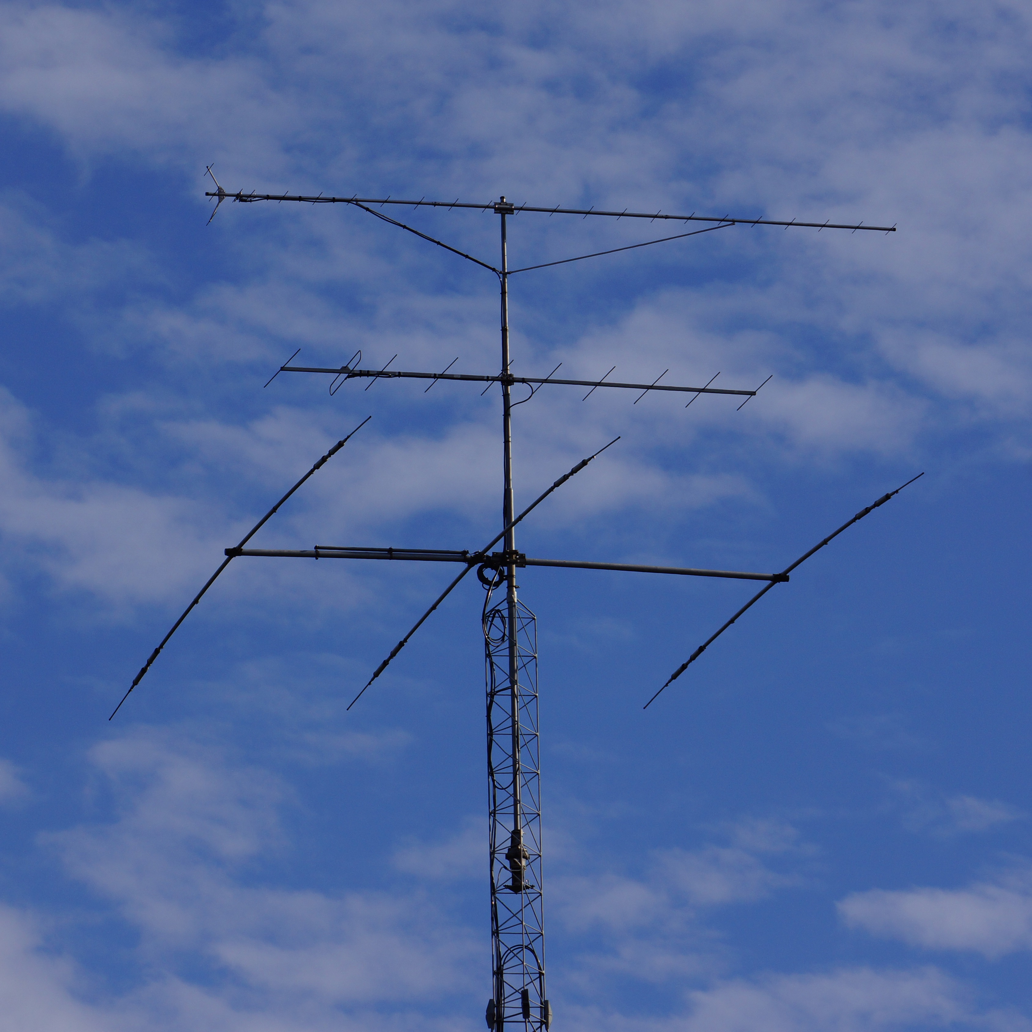 amateur radio HF and UHF Yagi antennas